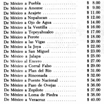 Lista del cobro de peajes de las diligencias